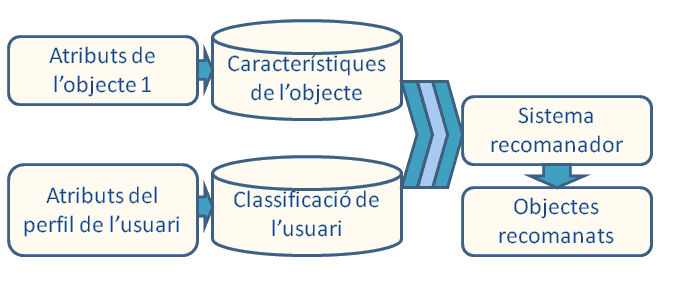 content-based approach